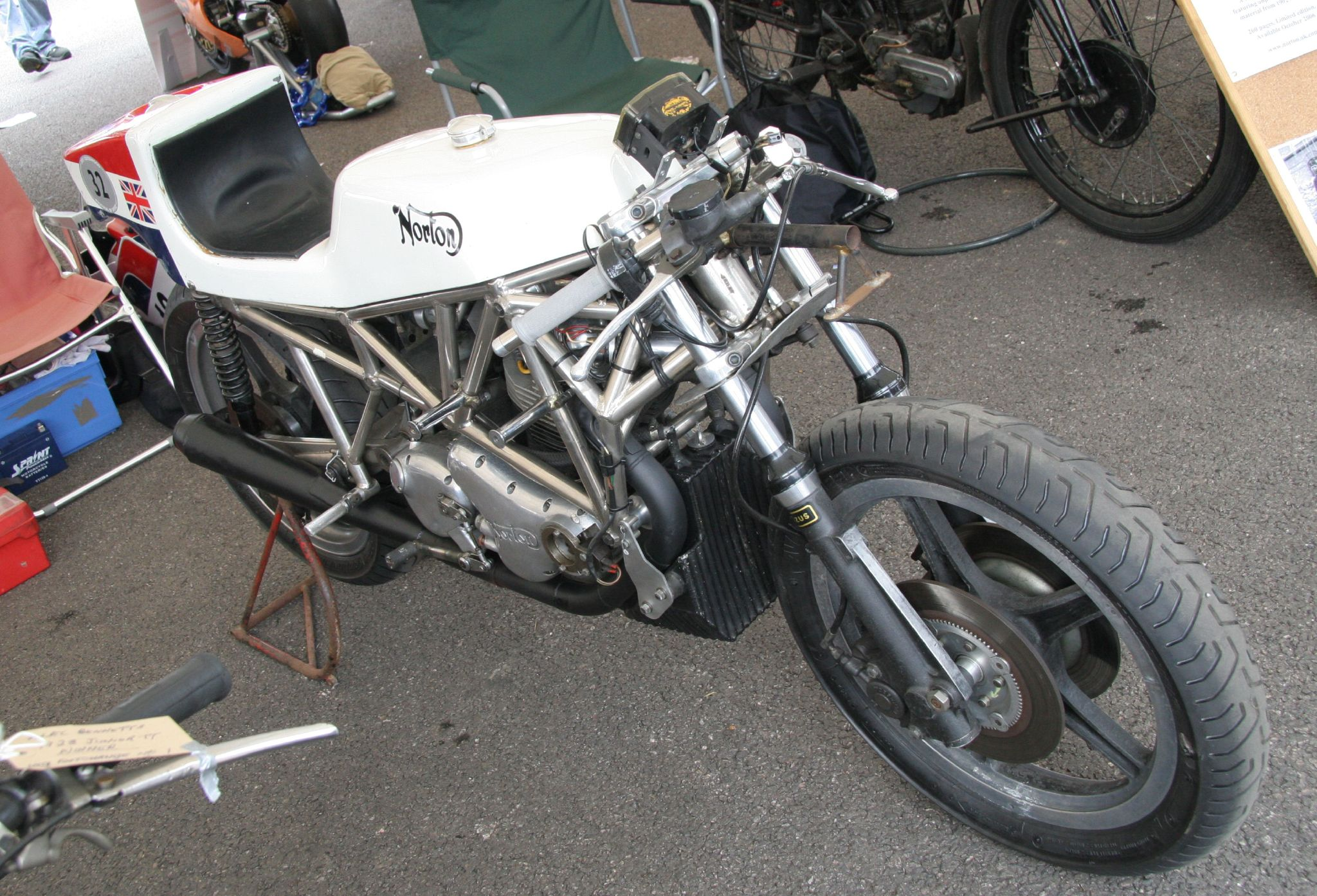 1974 Norton F750 'Spaceframe'